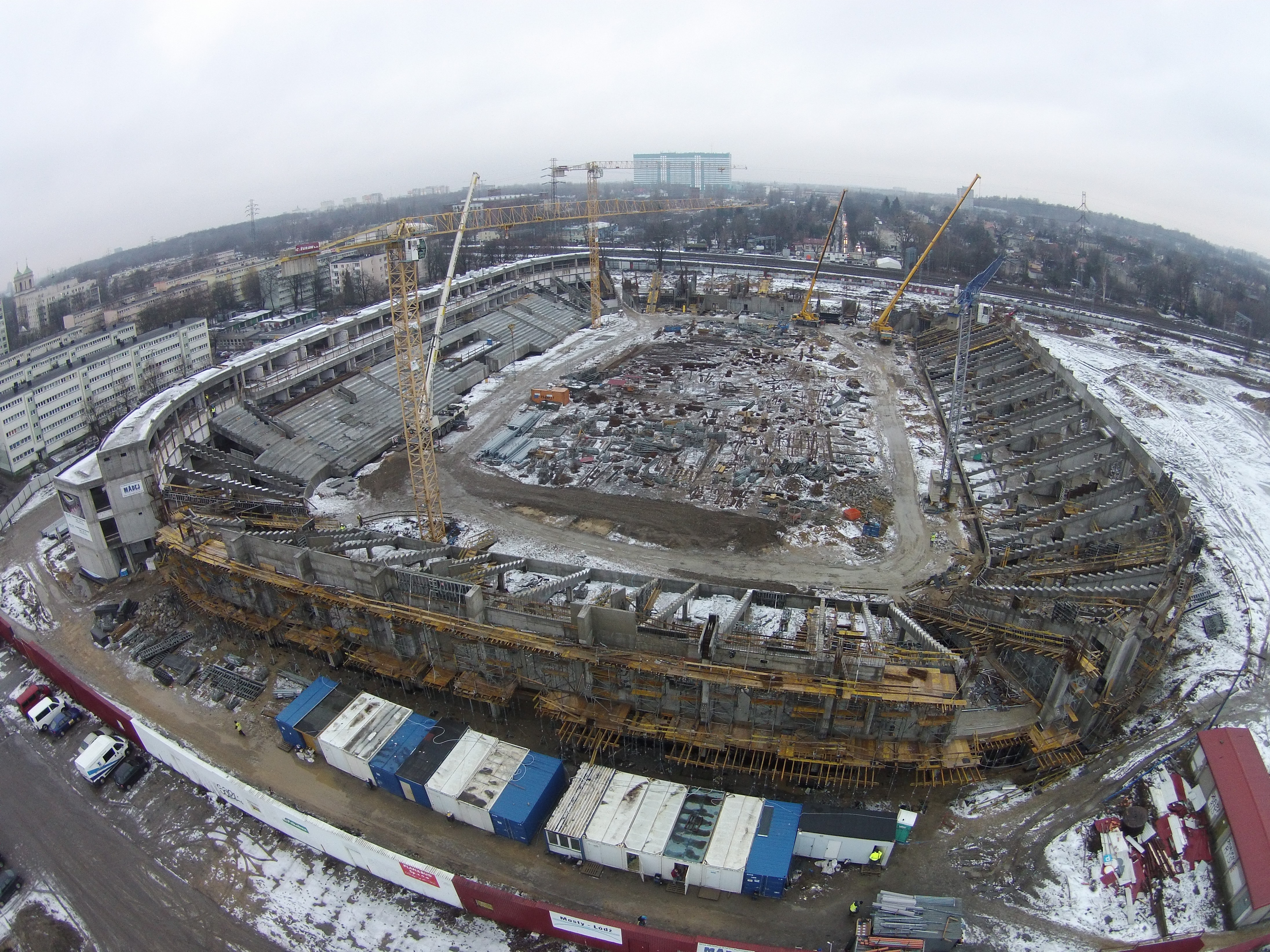 DCIM\123MEDIA